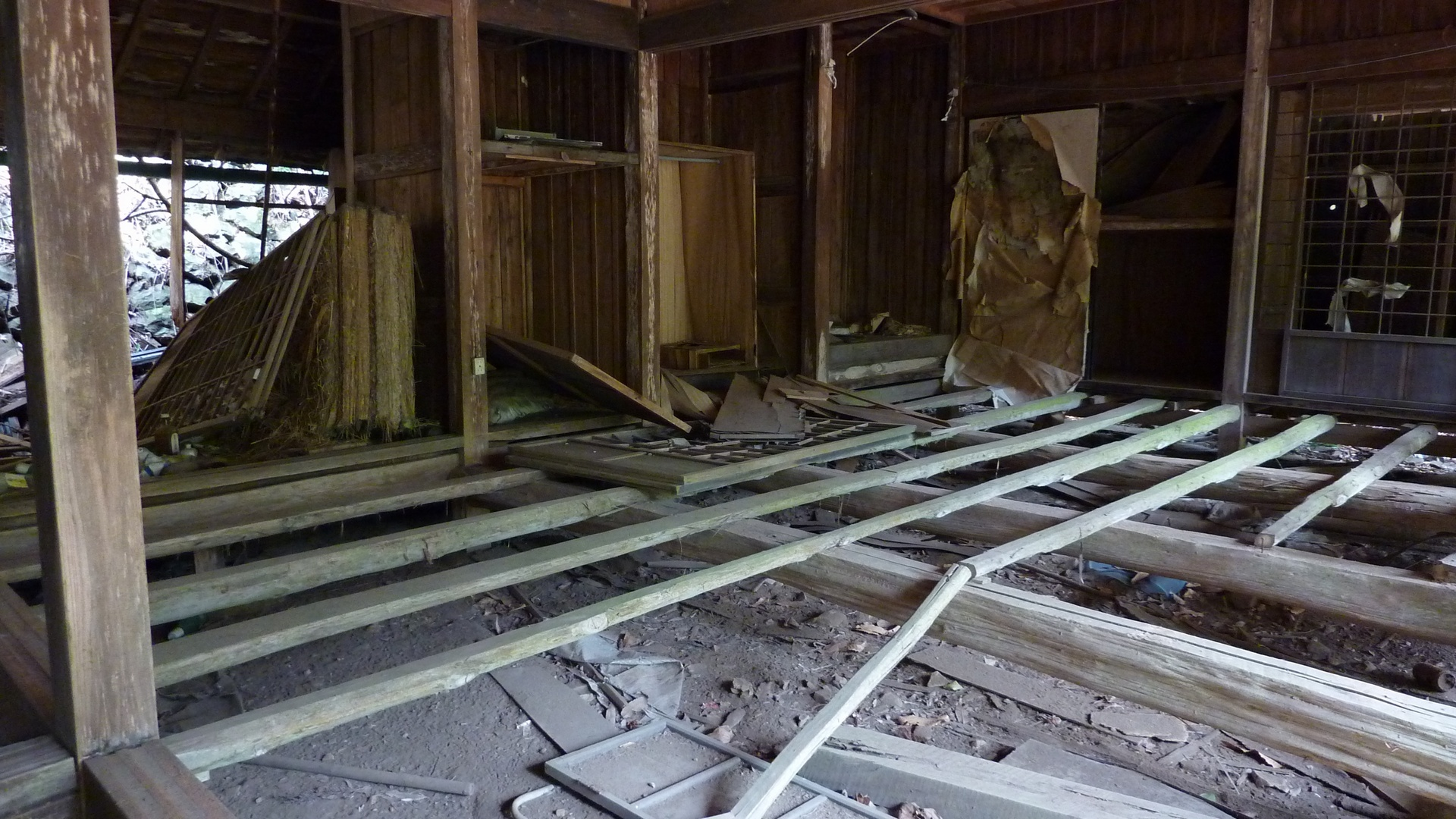 The House in Sabukawa, Saito City, Miyazaki Prefecture, Japan.